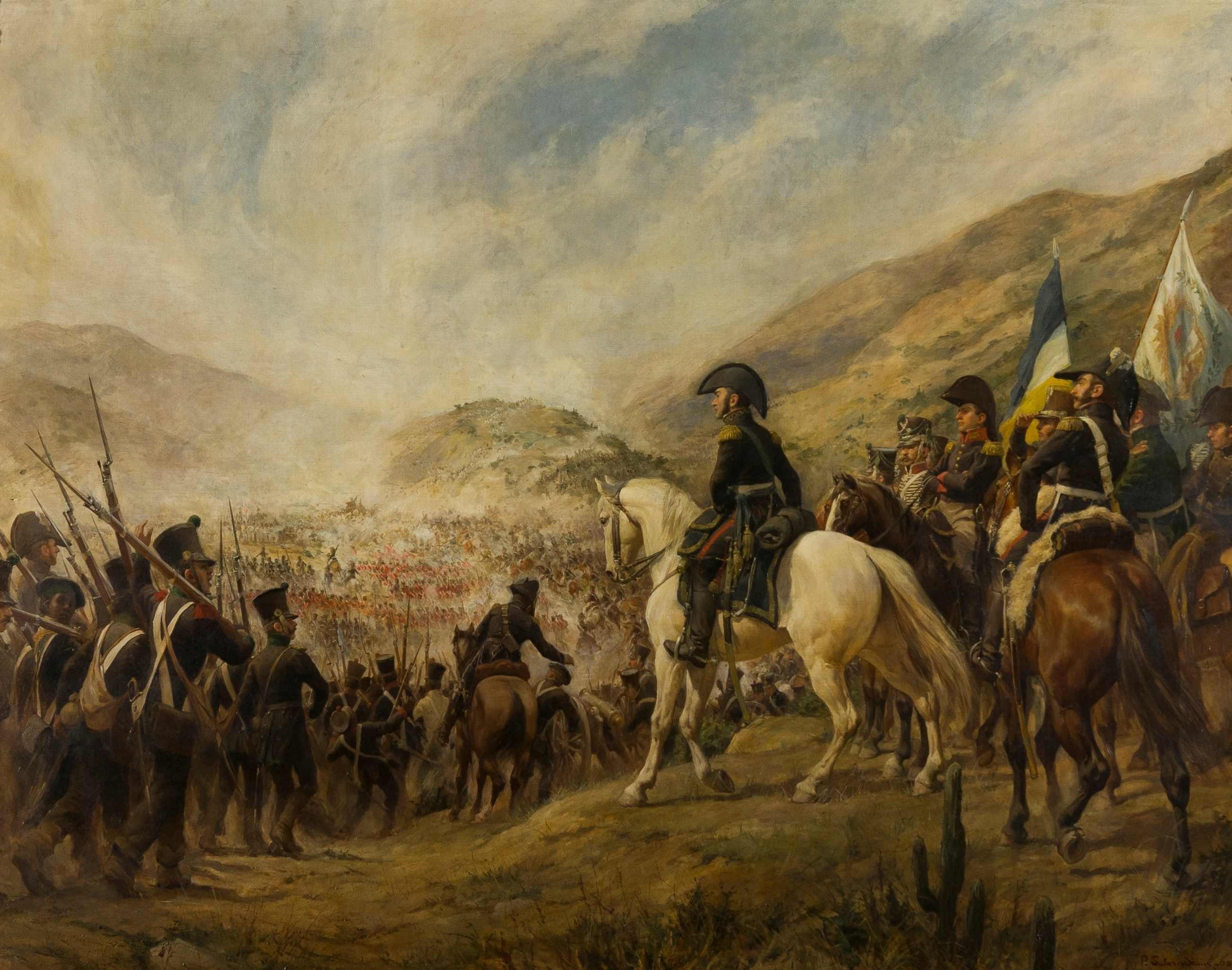 Chilean and Argentinean troops going to the Battle of Chacabuco (February 12, 1817) led by José de San Martín.